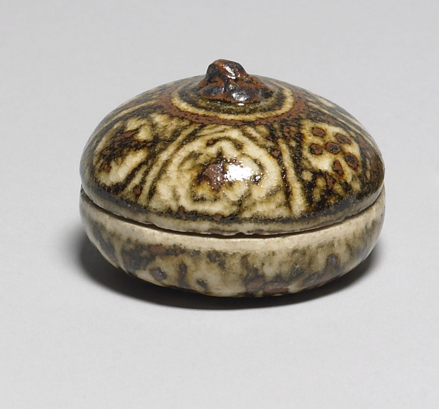 This box was influenced by Thai Sawankhalok ware.